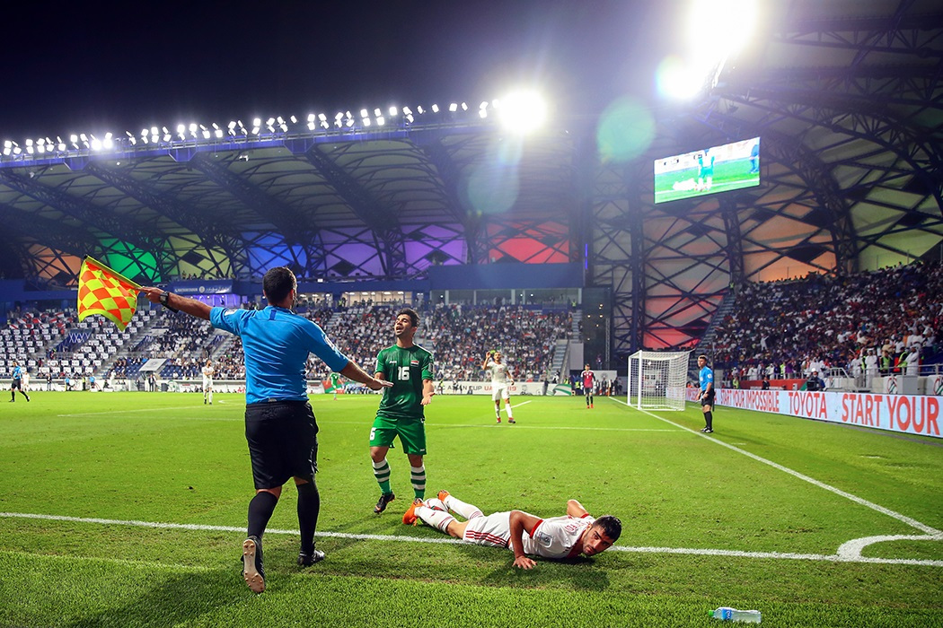 Iran & Iraq Group D match, 2019 AFC Asian Cup